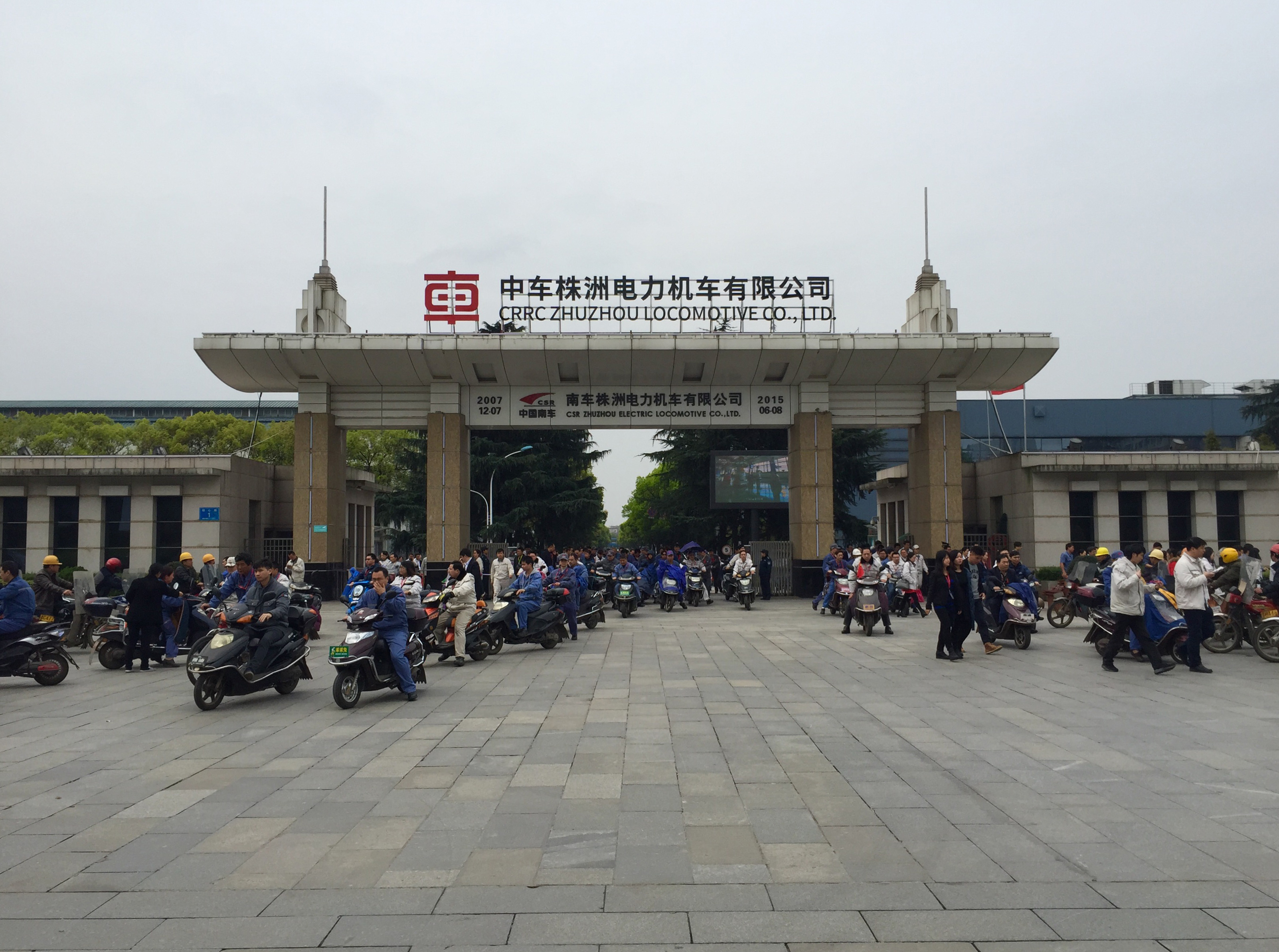 I just came at noon break! This gate features the logos of former CSR and current CRRC.